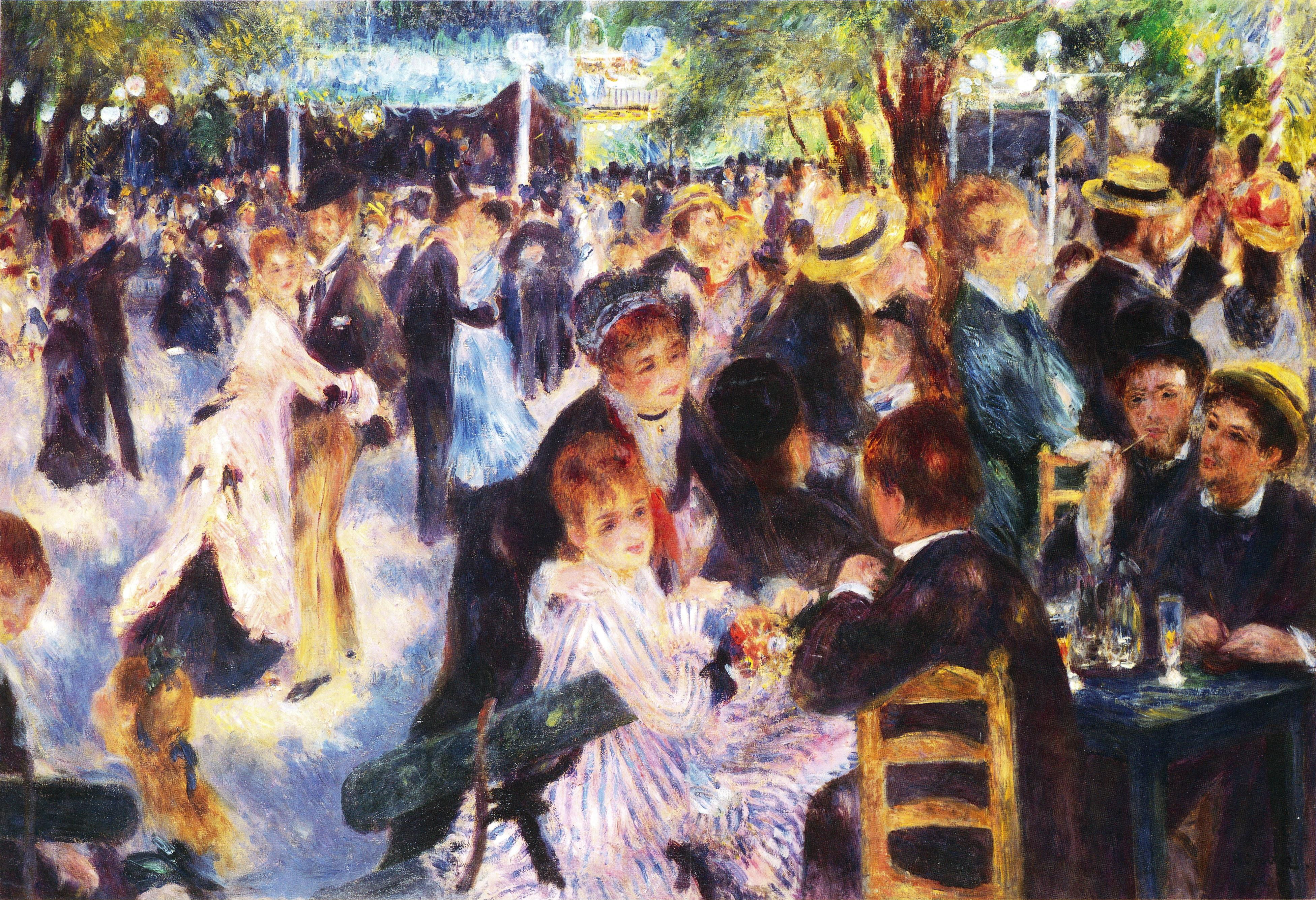 There are two versions of this painting (as well as a largely monochrome study in Copenhagen). The larger and better known version is the one in the Musée d'Orsay. This is the smaller version, held in the Whitney Collection until 1990 when it was sold at Sotheby's, New York, for the then record price of US$78 million. The painting is now believed to be in a Swiss private collection. Other than in size, the paintings are almost identical, one evidently being an exact copy of the other, although the Whitney version is executed more freely. It is not known which was first exhibited, nor even which first painted. This scan is from the Sotheby's sale catalogue 17 May 1990. The original was a fold-out with a central crease. The left and right portions were scanned separately and then stitched. The fold line runs just to the right of the central figure's left cheek. A strip 12 pixels wide corresponding to this crease was cropped out. The registration of the two pieces is not completely perfect.